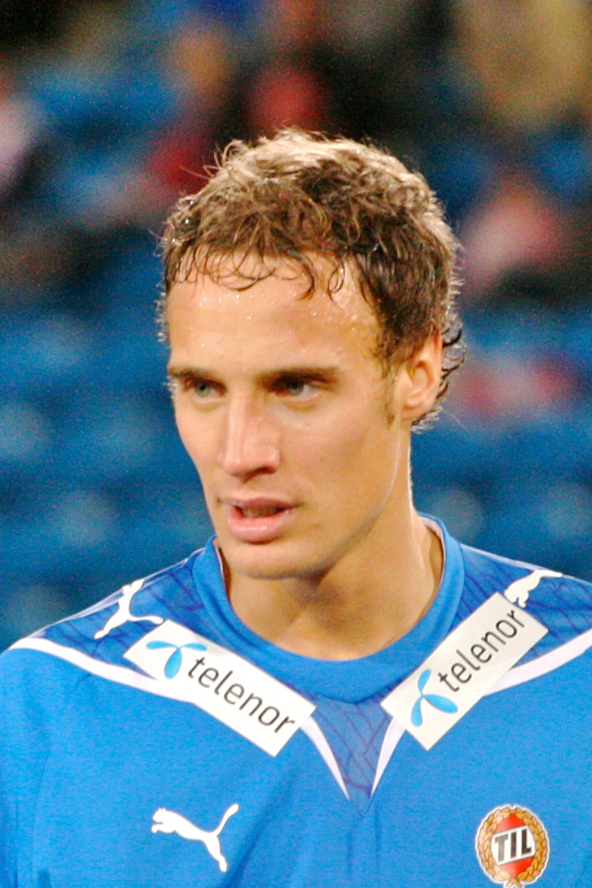 Tore Reginiussen, Tromsø IL footballer.